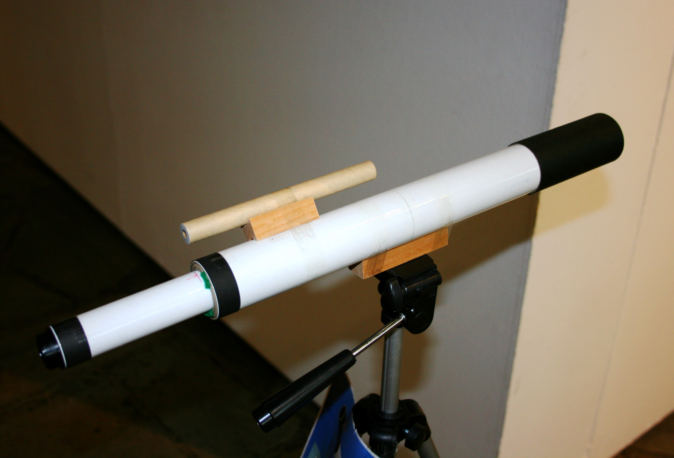 Launch of the International Year of Astronomy in Paris. Galileoscope – a simple telescope for 10 million people.